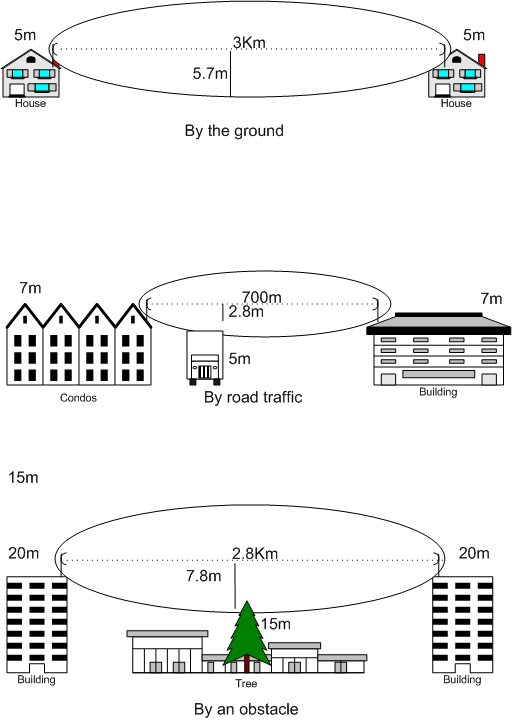 This drawing shows how the Fresnel zone can be disrupted by the ground, road traffic and an obstacle like a tree. The drawing was created using visio 2000 SP2 and saved as a .png file. The image was based on this image where there were commercial company names and the licensing status was unknown. Twibright Labs is not a commercial company name. The licensing status is GFDL